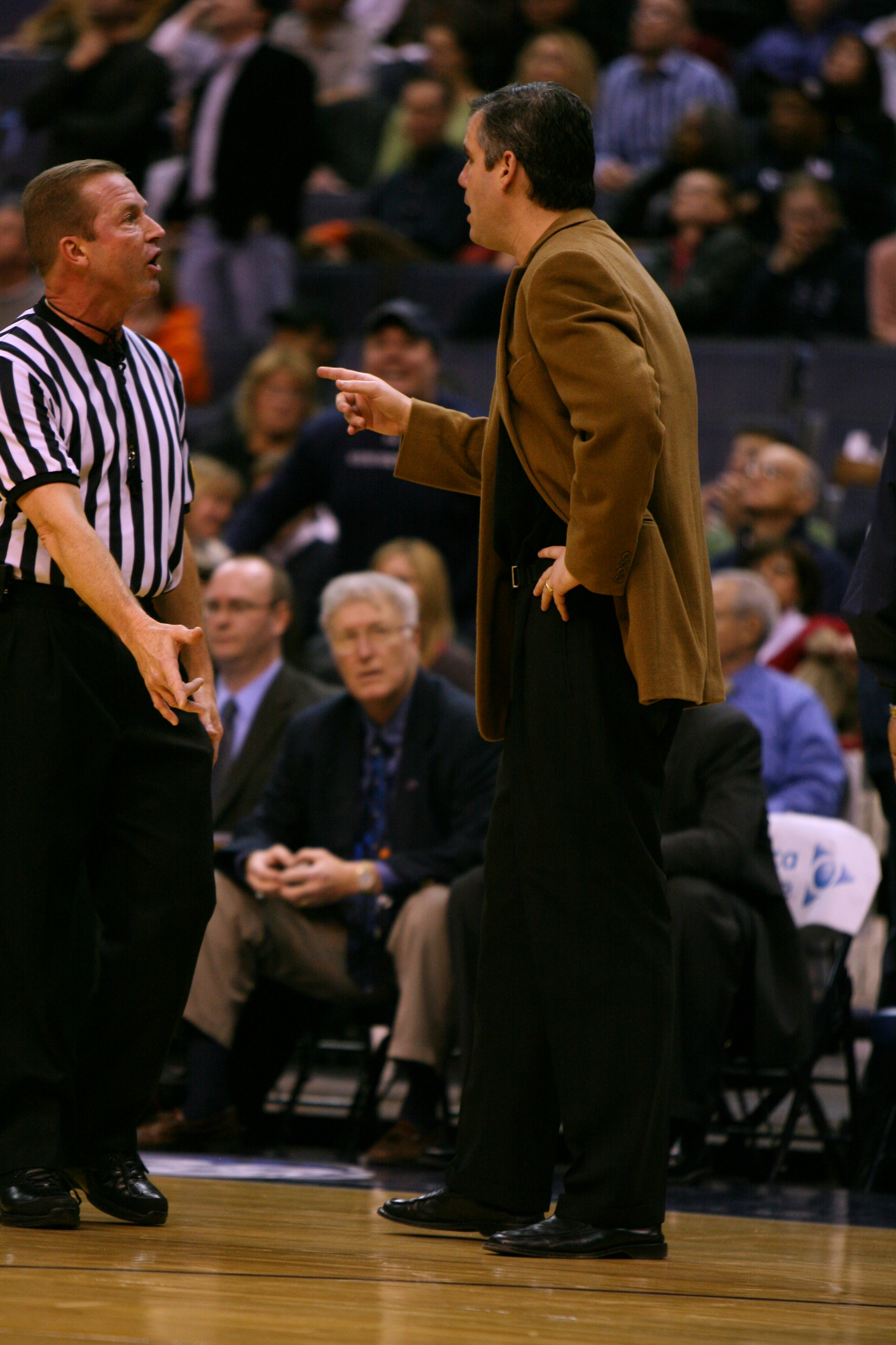 NBA referee Joe DeRosa talking with an assistant coach during the Houston Rockets/Washington Wizards game on December 9, 2006.